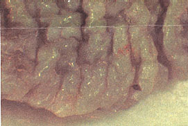 Ridged band of prepuce (10x)